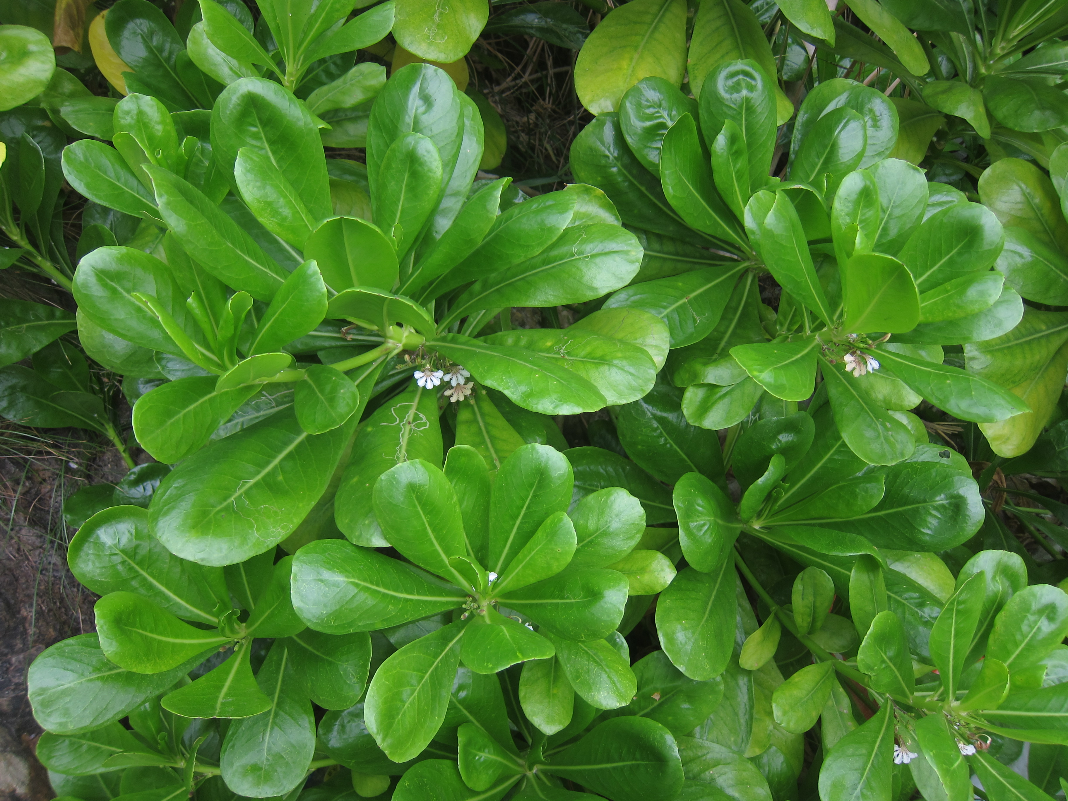 Scaevola taccada in Ap Lei Chau showing the traces left by leaf miner